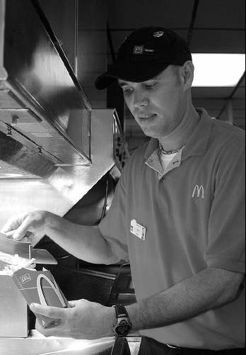 Crew worker Ray Montepio works his magic at the fry station pouring fresh, hot, golden, crispy, salty, and delicious french fries into a large-sized container, much to the satisfaction of the hungry customer who awaits his order with bated breath. You think you can get fries like this at Subway? No chance.